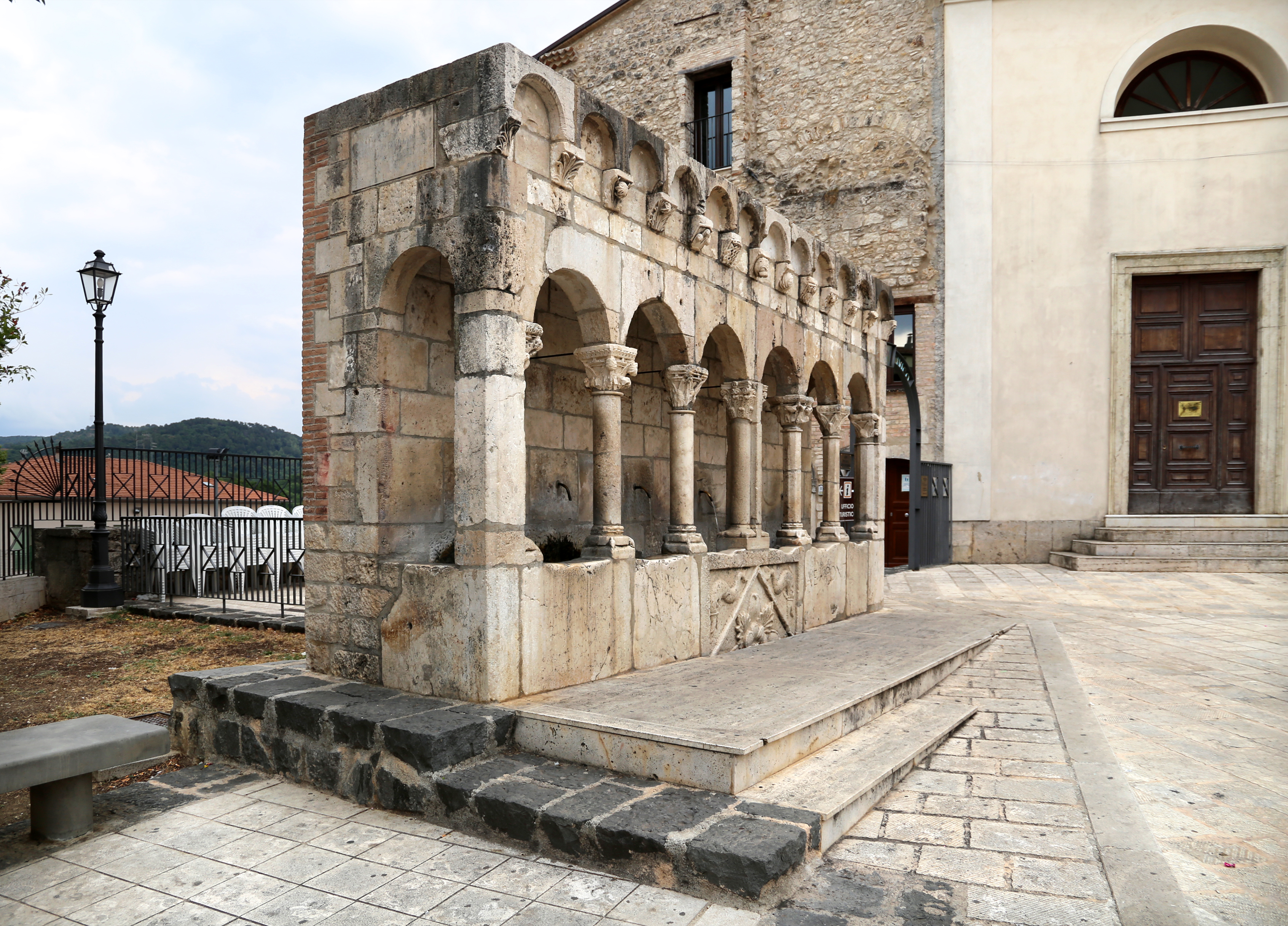 Fontana Fraterna